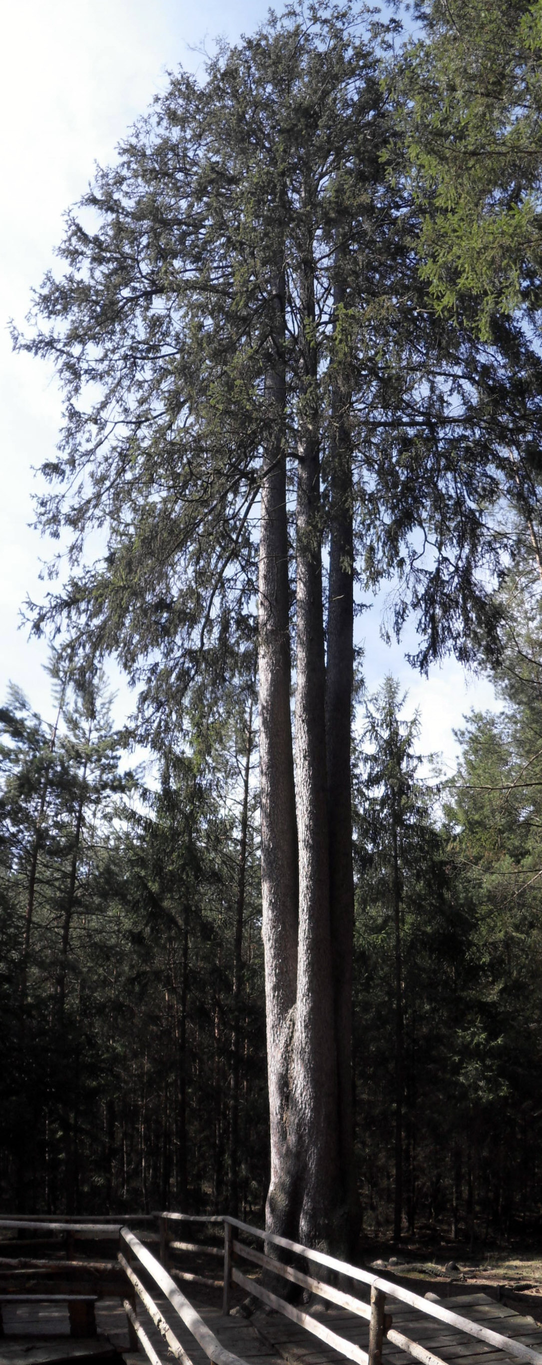 The spruce with three trunks in Lány close to Plzeň